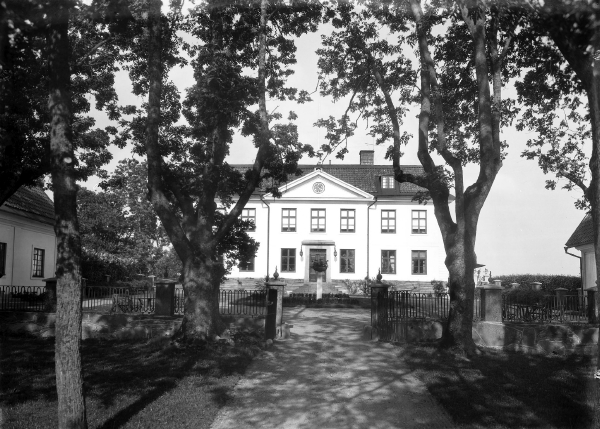 The manor Götarsvik outside Örebro, Sweden